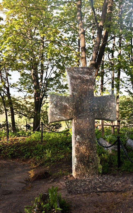 Near the hill fort - an ancient cemetery with a stone crosses of the XV century. One of the crosses, the height above the height of a man, known as Truvor cross Truvorova grave. Folk legend connects it with the legendary Varangian Truvor.